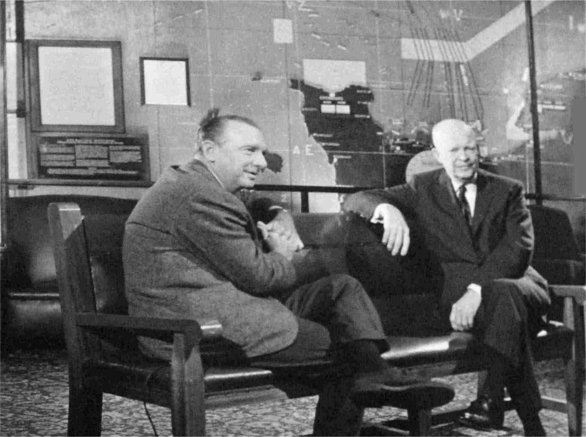 Southwick House - Eisenhower & Cronkite - photo taken 2019-9-11